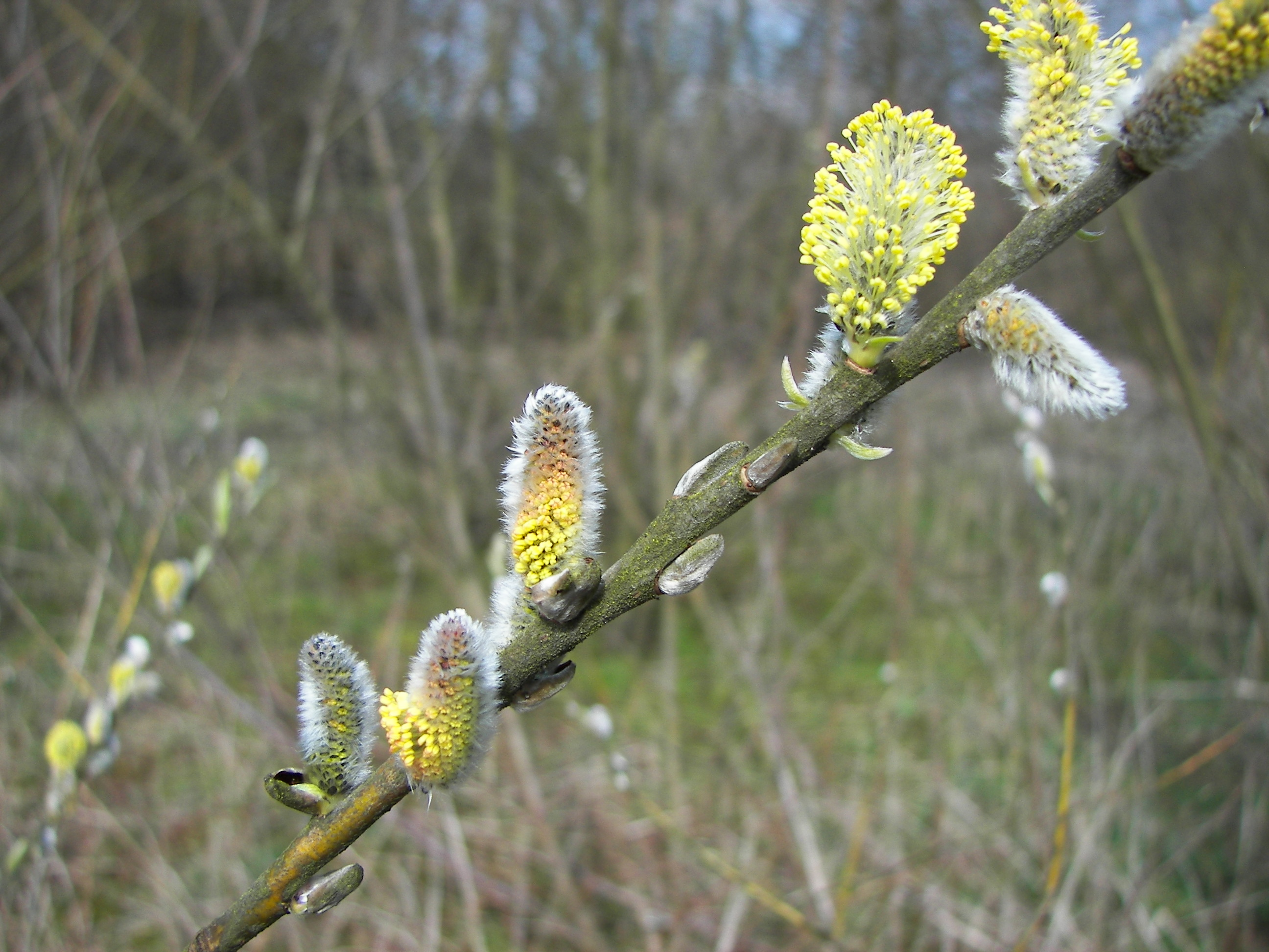 Common Osier (Salix viminalis), male catkins, Location: Near Cölbe, Hesse, Germany